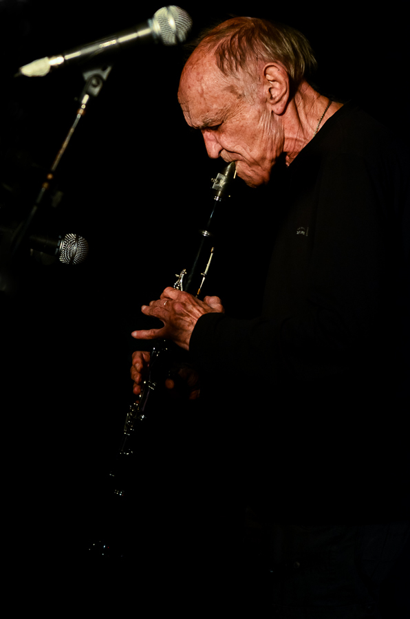 South African-born Israeli visual artist and free jazz clarinettist.